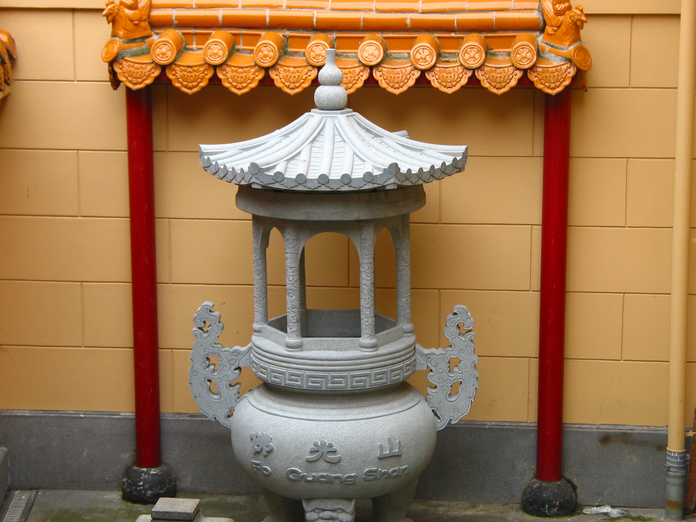 He Hua tempel